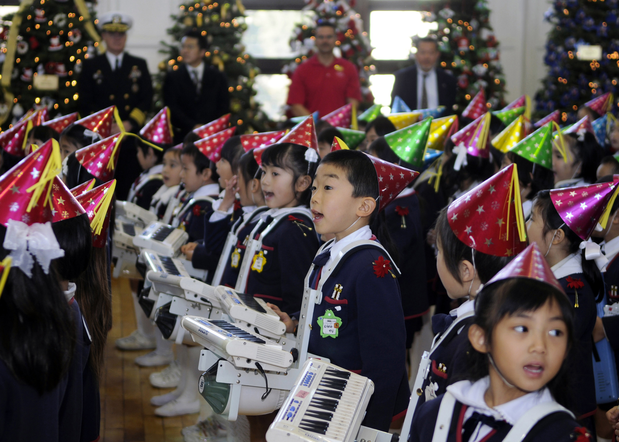 YOKOSUKA, Japan (Dec. 6, 2008) Children from Seika Kindergarten sing traditional Christmas songs during Fleet Activities Yokosuka's (CFAY) Grand Illumination open base event. Yokosuka opened its gates to more than 80,000 Japanese visitors who enjoyed tours of the aircraft carrier USS George Washington (CVN 73), holiday lights and decorations, a festival of Christmas trees and American fare. Open-base events like this help strengthen neighborly bonds and encourage friendship between Japanese citizens and the U.S. Navy community. (U.S. Navy photo by Mass Communication Specialist 2nd Class Barry Hirayama/Released)